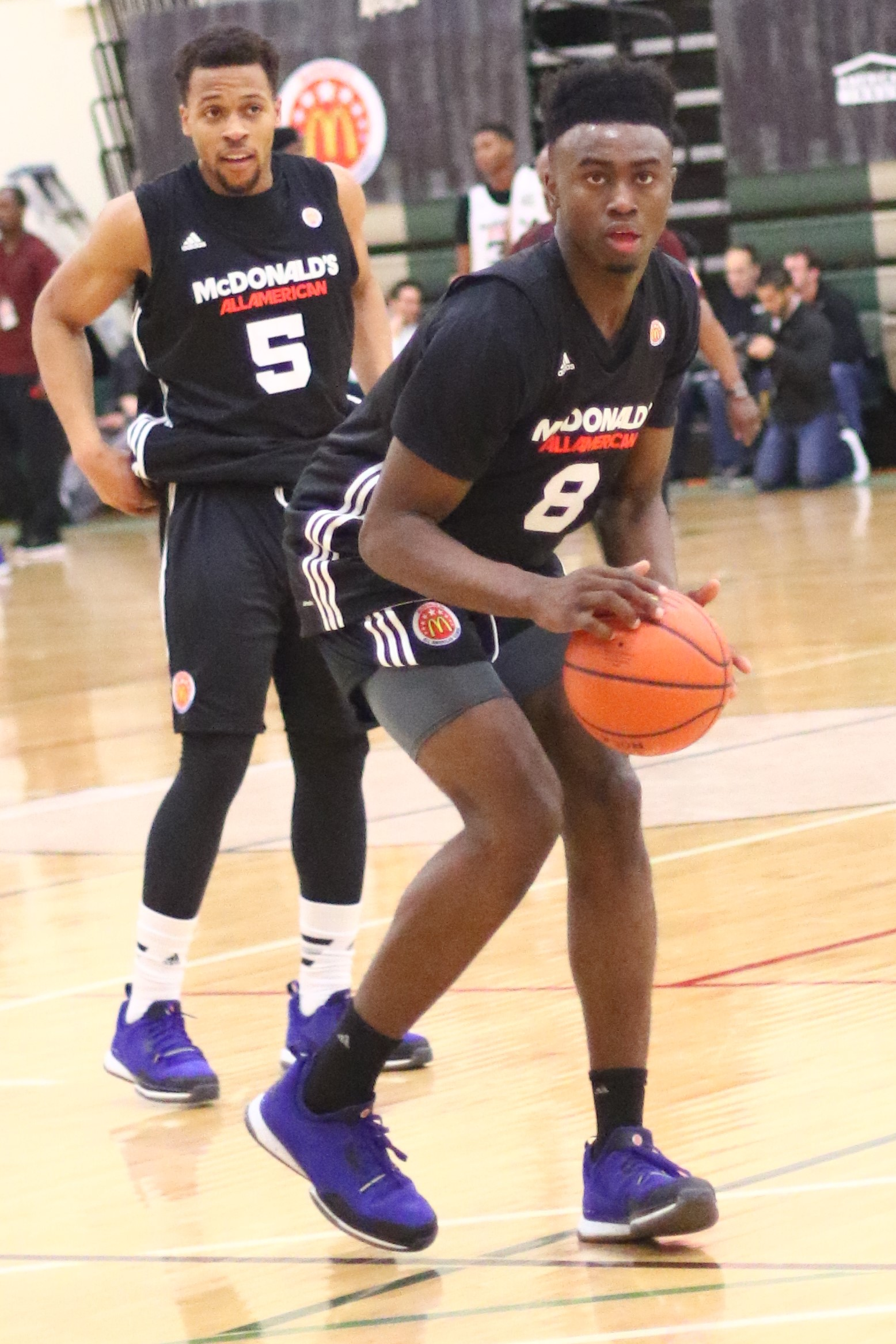 Jaylen Brown in the w:2015 McDonald's All-American Boys Game closed practice